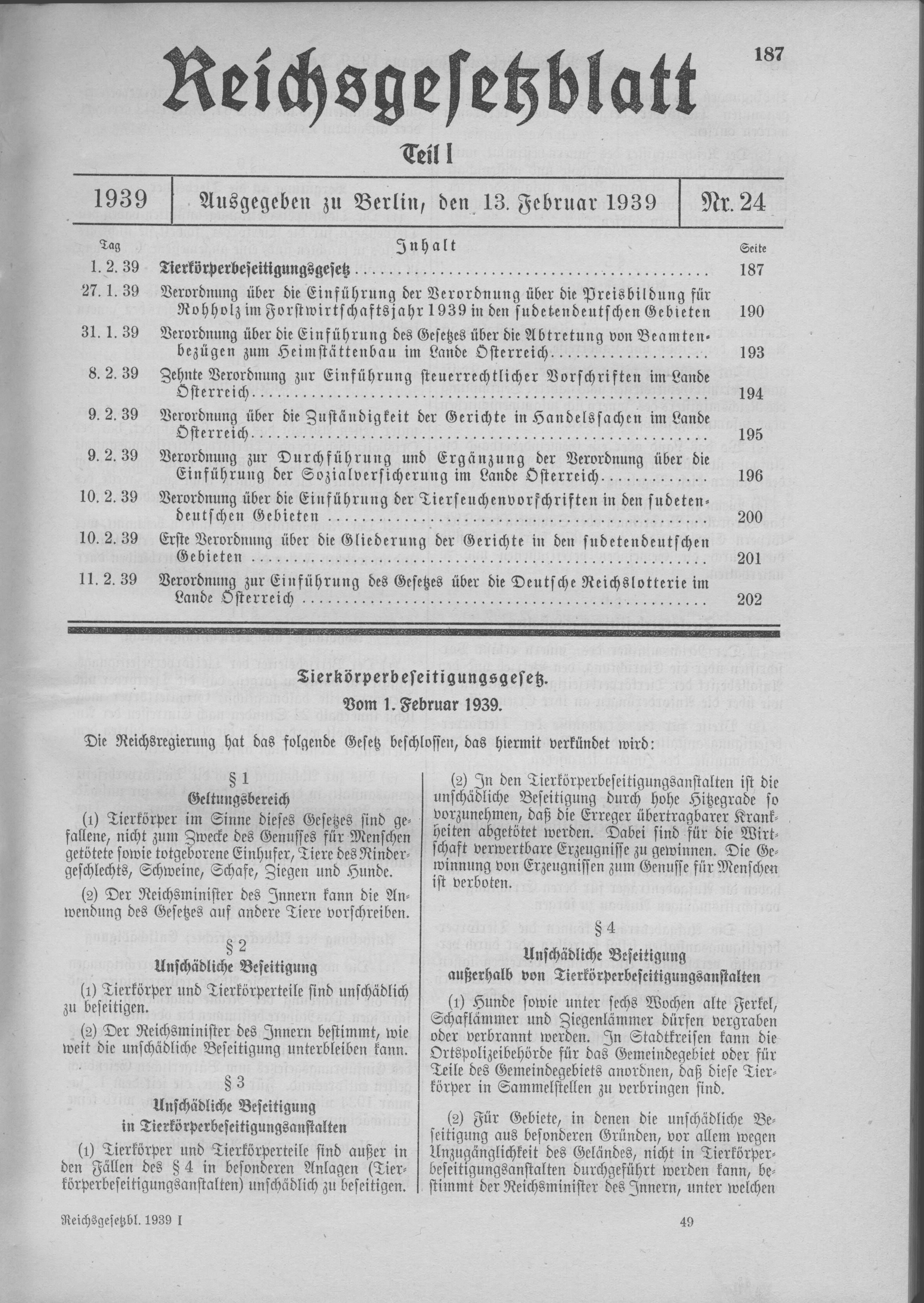 Scan from the Imperial Law Gazette of Germany, 1939, part 1